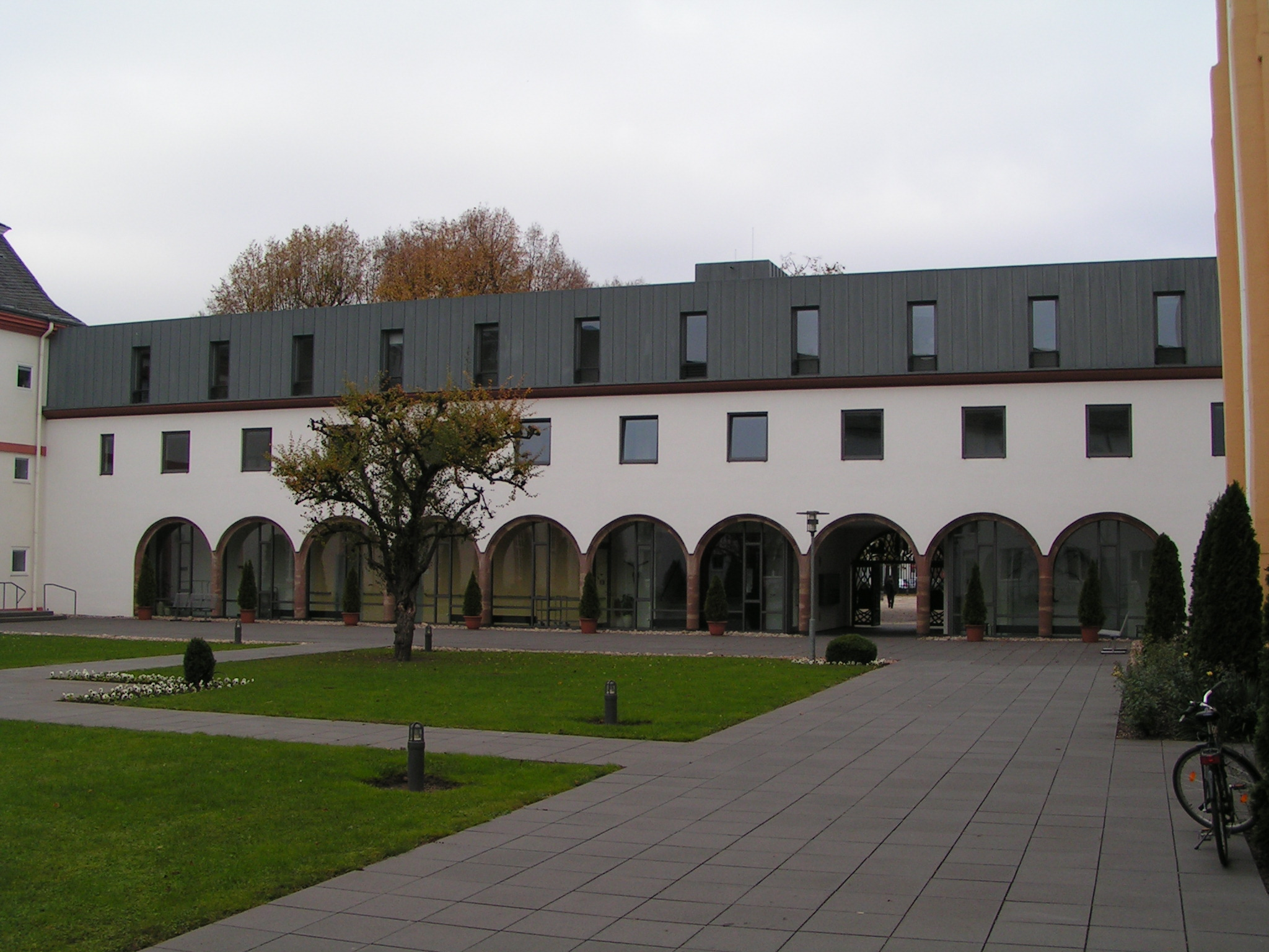 St. Irminen, Rhineland-Palatinate, Germany